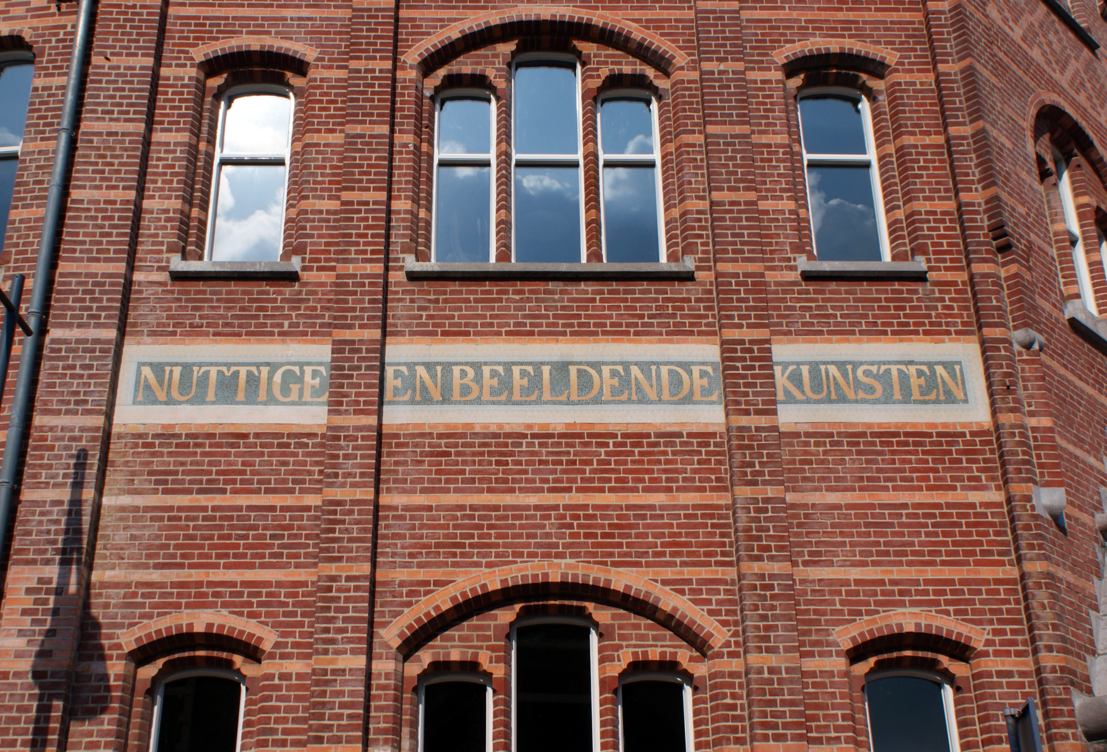 Tekenschool Dr. Cuypers façade Roermond